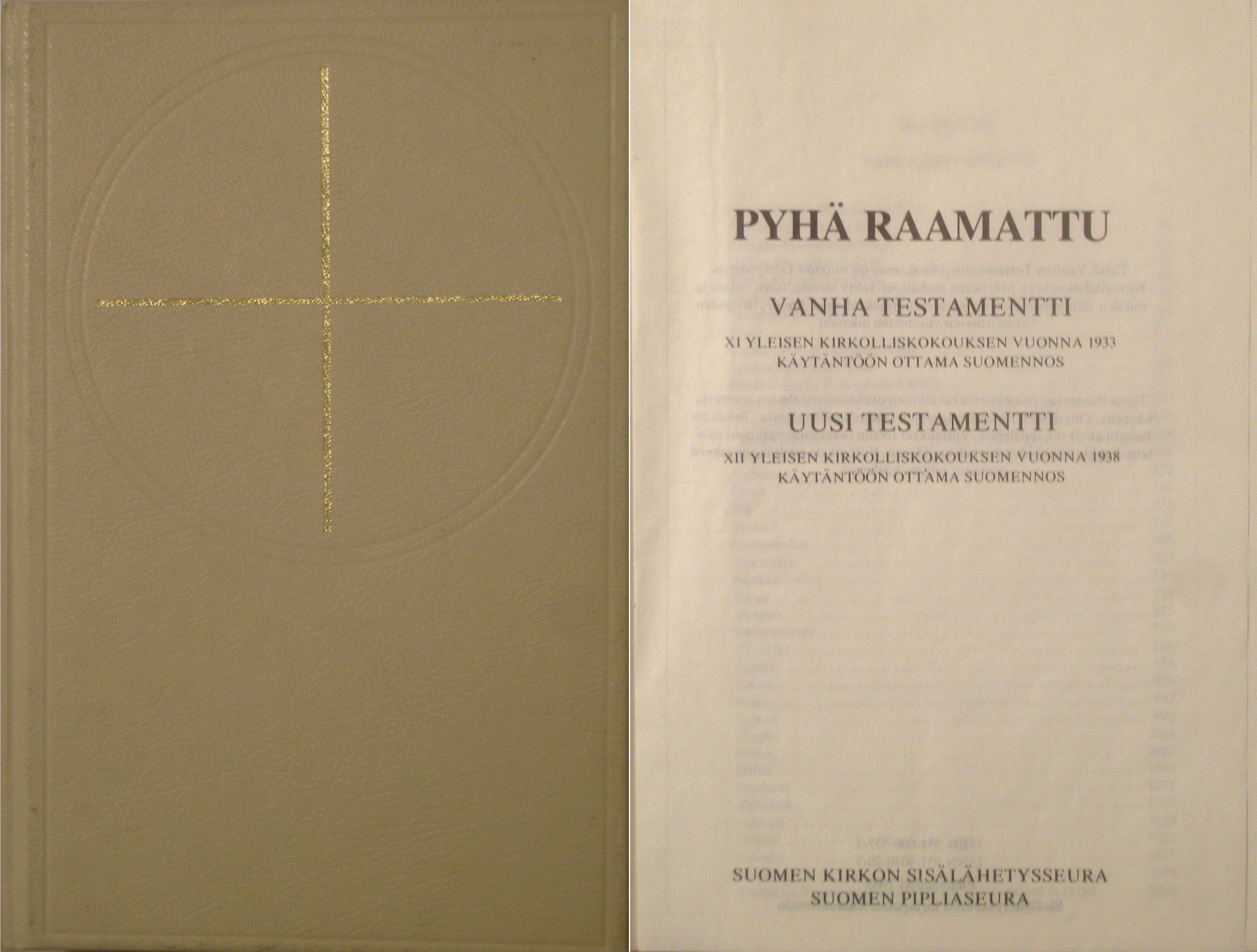 Cover and first page of Finnish Holy Bible from year 1933(Old Testament) and 1938(New Testament)